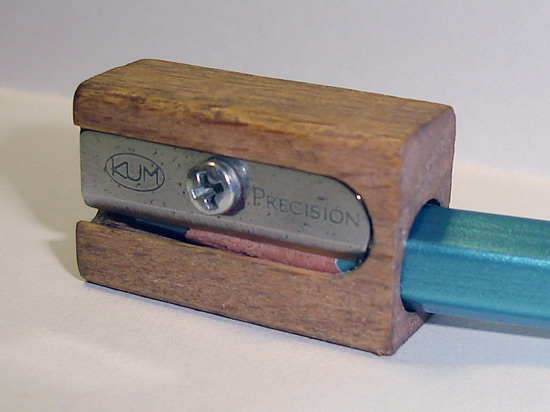 Image of a wooden pencil sharpener.